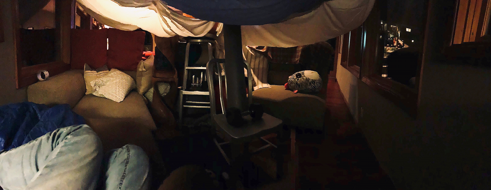 The inside of a pillow fort